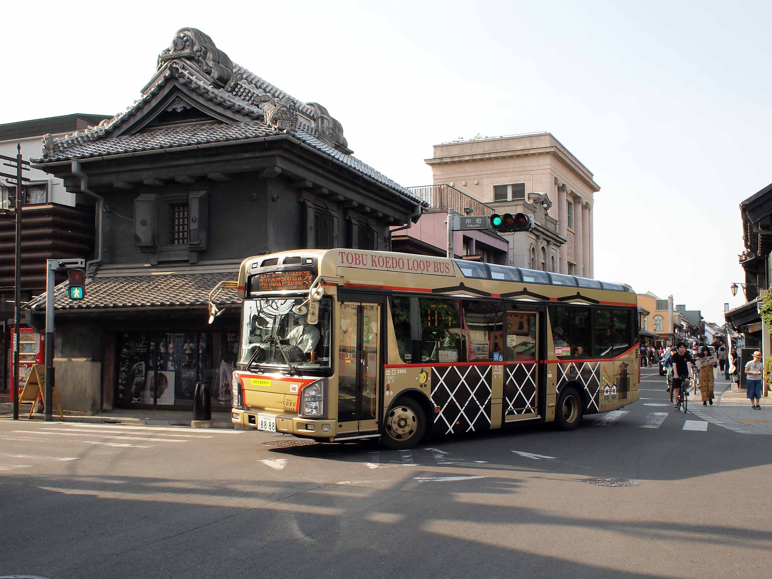 Koedo Meisho Meguri Bus (Koedo Loop Bus), sightseeing route bus in Kawagoe. Model: Isuzu Erga Mio SDG-LR290J1 Customize: Iwado Kogyo License plate: STK230 U8888 Place: Nakacho, Kawagoe City, Saitama Japan